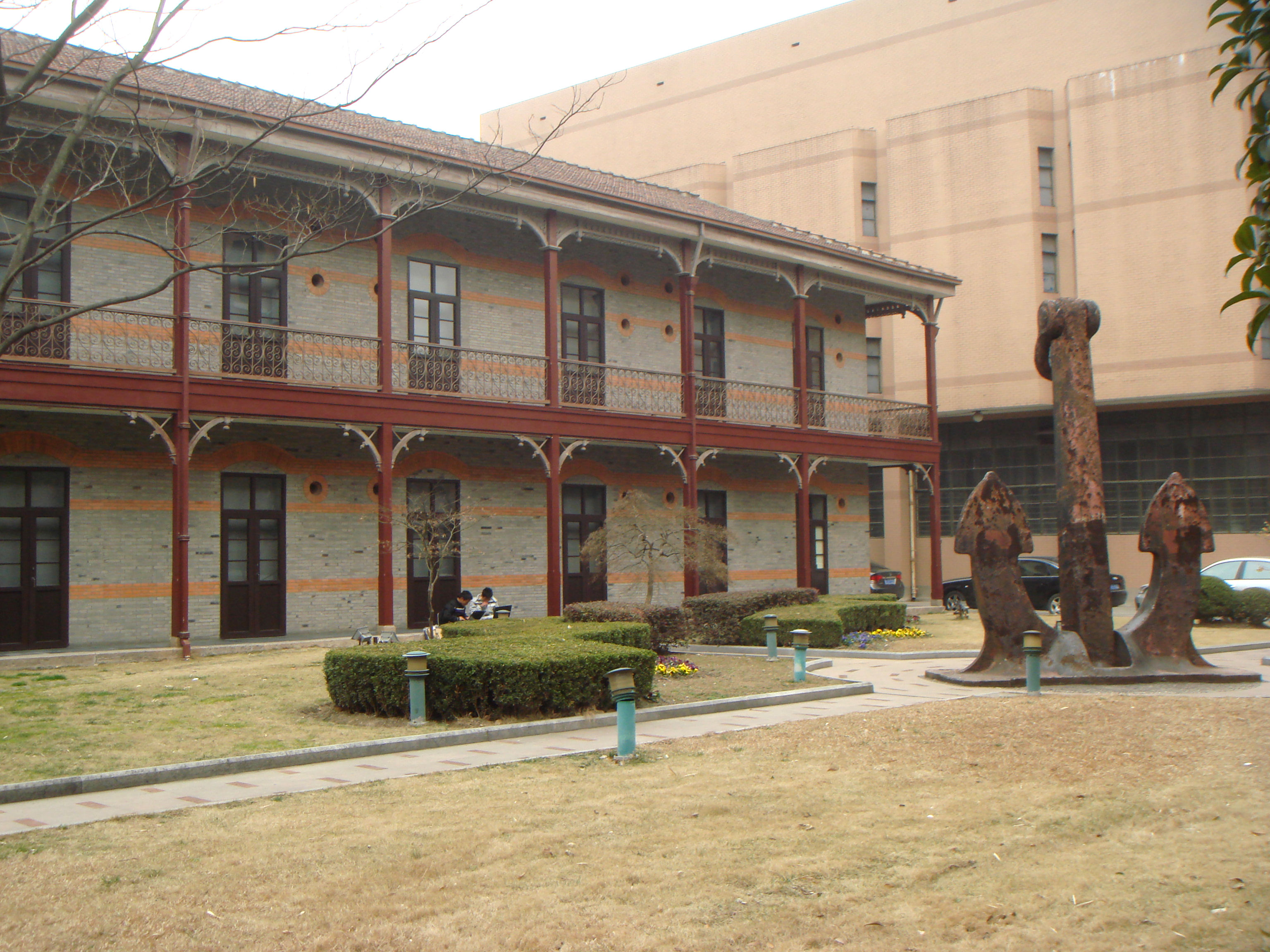 CYTUNG_MUSEUM